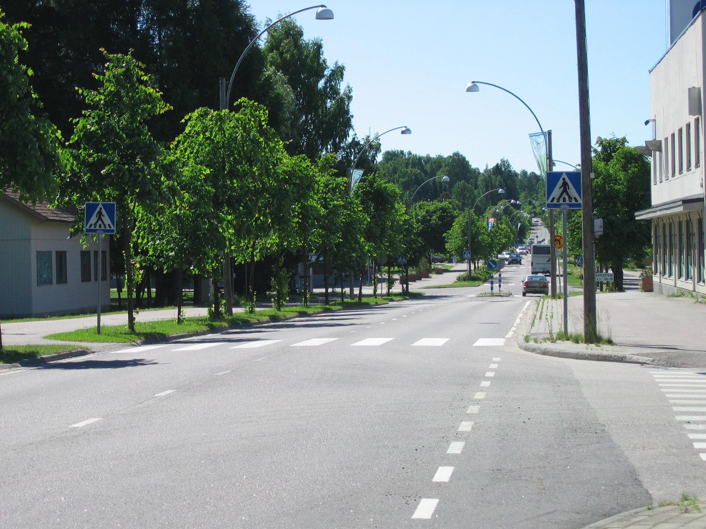 Parikkalantie (connecting road 4015), the main street of Parikkala, Finland, towards the church.